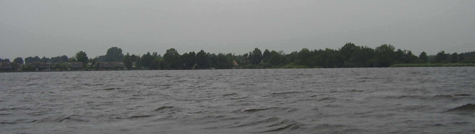 Part of the Northeast shore of the east part of the Belterwijde.